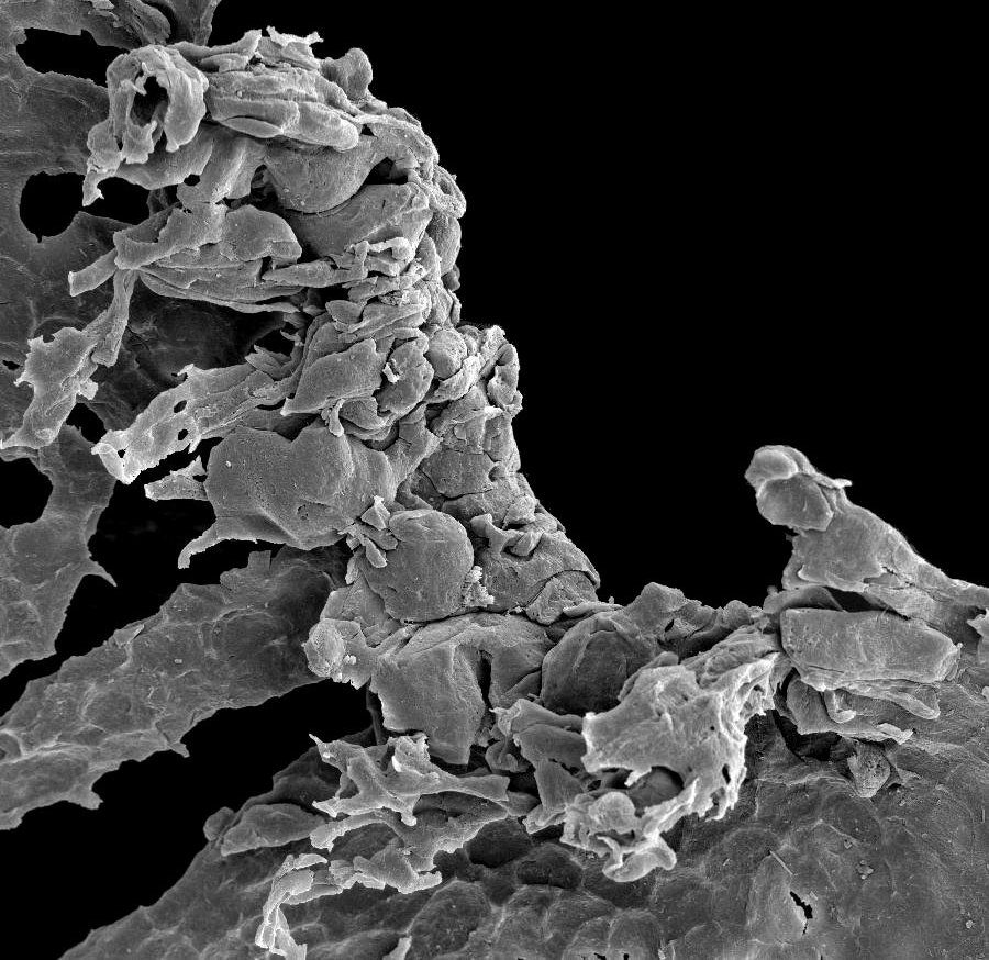 Aperture in cuticle of Nematothallopsis, showing spheroid structures (spores?)